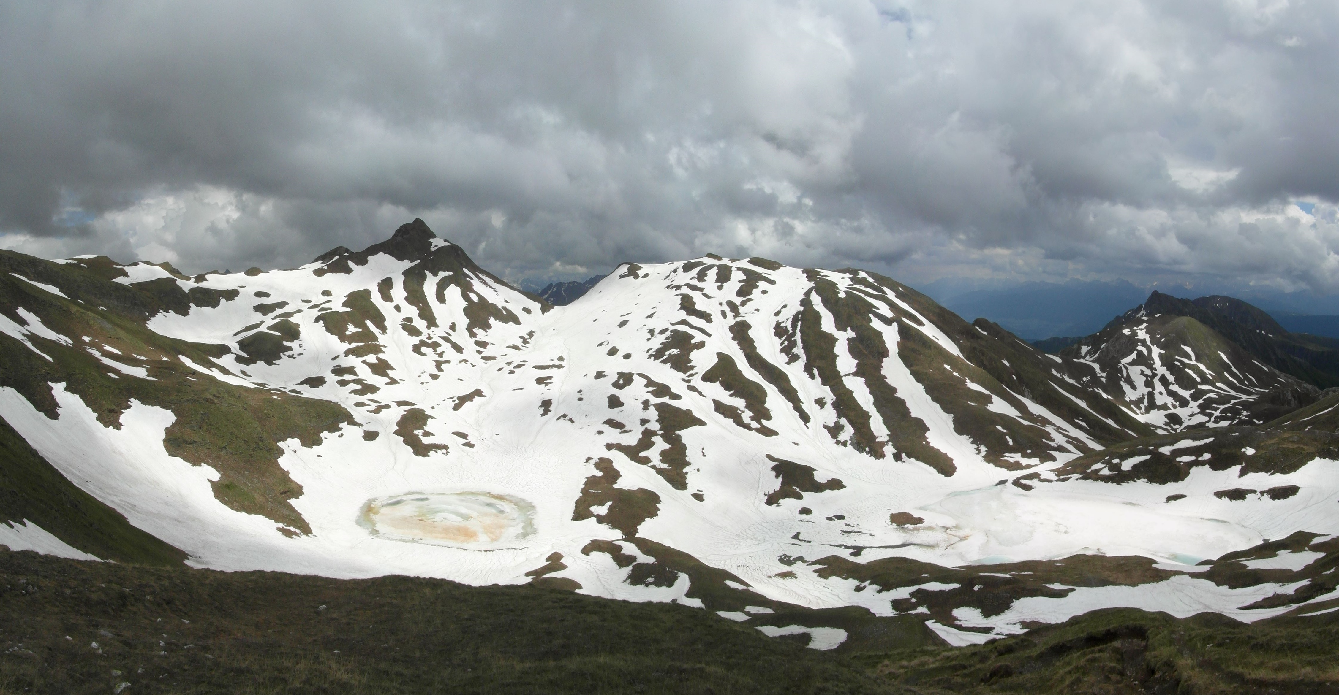 The superior lakes in the Altfasstal